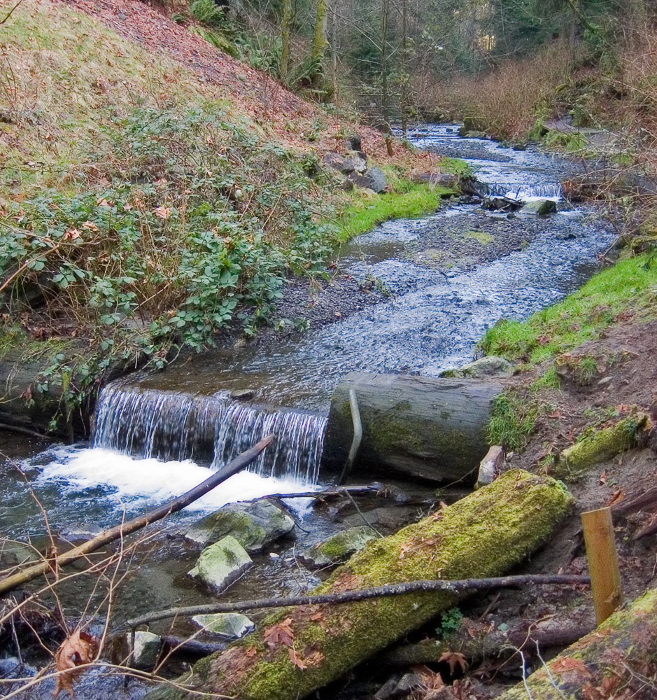 Photo of Boeing Creek, in Shoreline, Washington